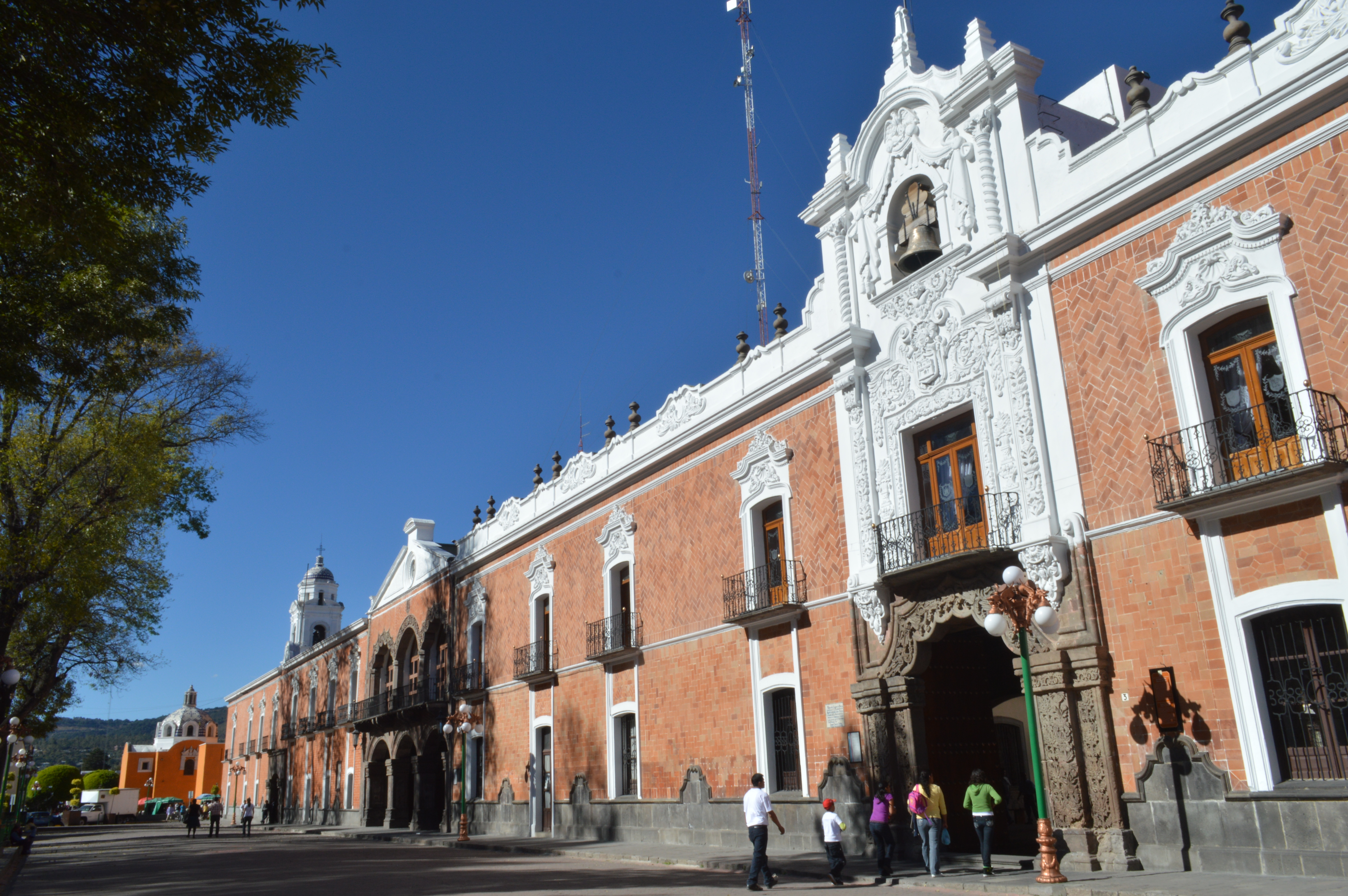 Facade of the State Government Palace of Tlaxcala in the city of Tlaxcala